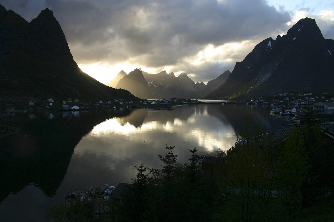 Reine is a traditional fishing village in the borough of Moskenes, outermost in the Lofoten Islandsm in Norway. There are approximately 1200 inhabitants and the main industries are fishing and tourism.